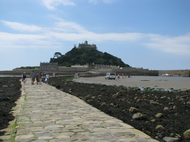 Causeway to St Michael's Mount